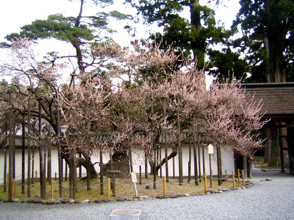 Garyobai, a famous prunus mume tree in Zuiganji